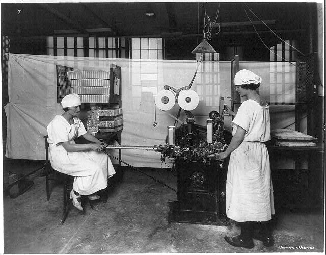 Title: 2 women operating gum-wrapping machine at the American Chicle Company Plant Abstract/medium: 1 photographic print.